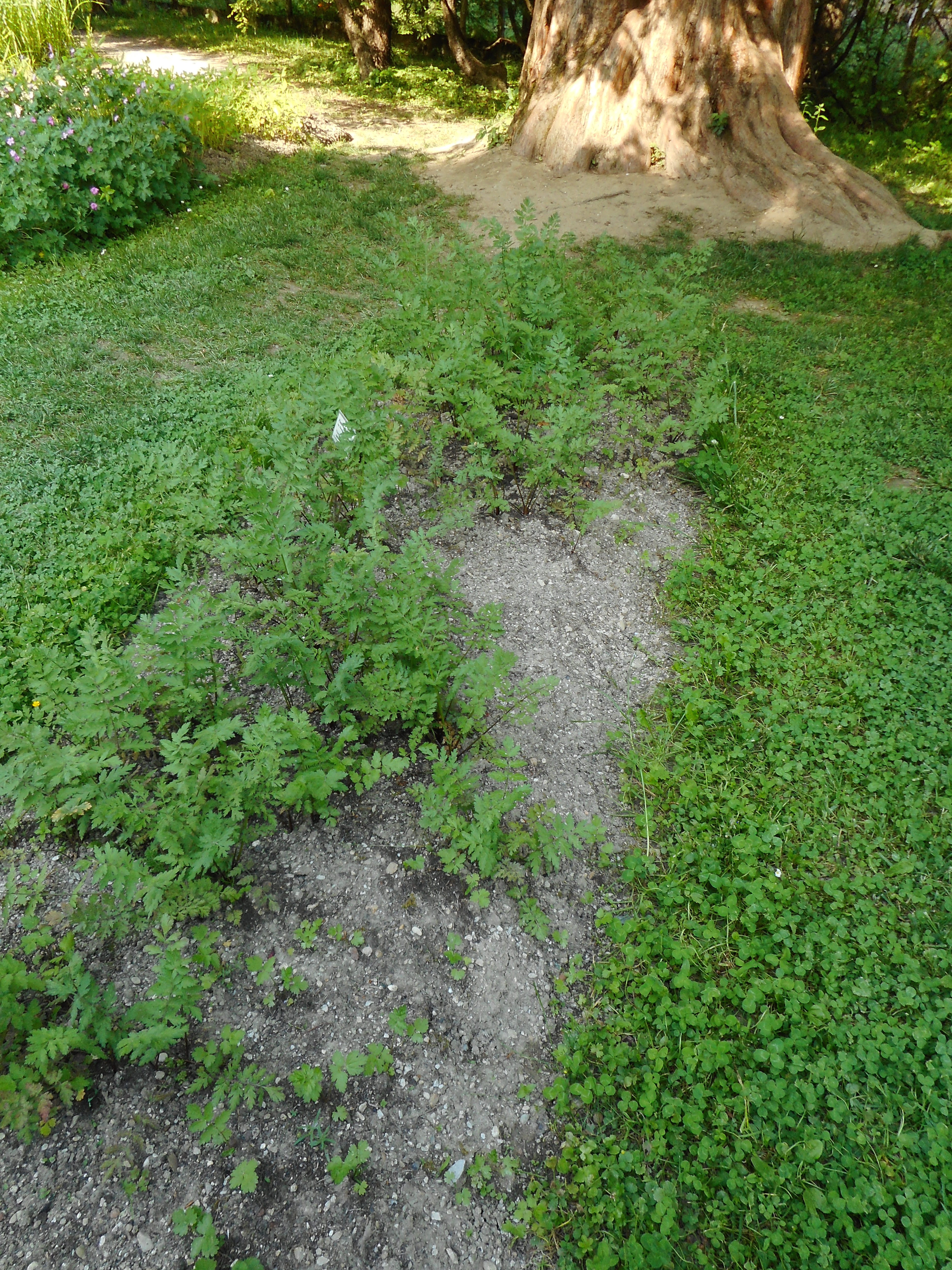 Pastinaca sativa in Ljubljana Botanical Garden